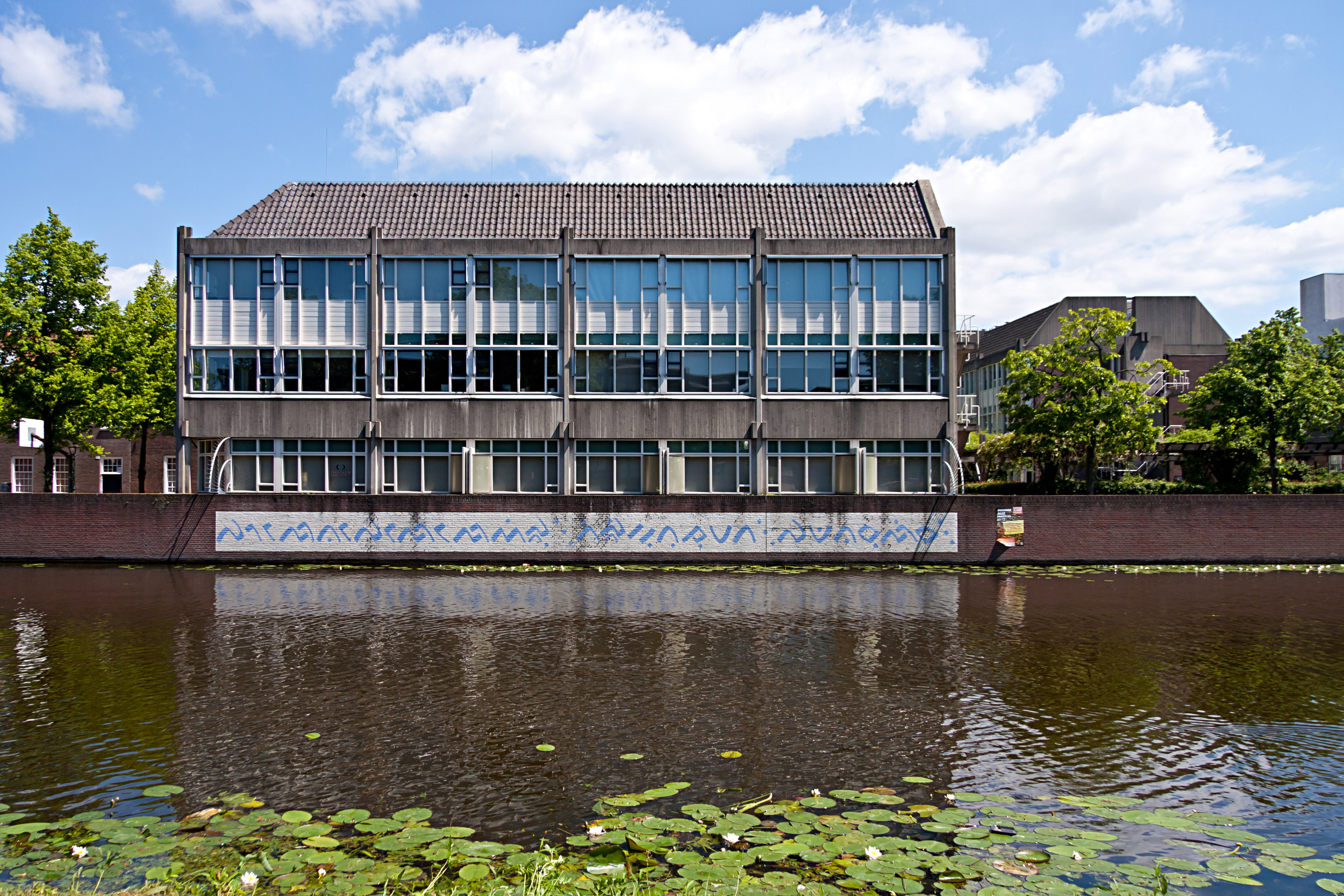 The Royal Netherlands Institute of Southeast Asian and Caribbean Studies in Leiden, The Netherlands. On the wall below the building is a poem in the Buginese language, part of a set of over 100 wall poems in Leiden. Translation from the Dutch below:I have travelled everywhere but nowhere did my eye encounter greater wisdom than here